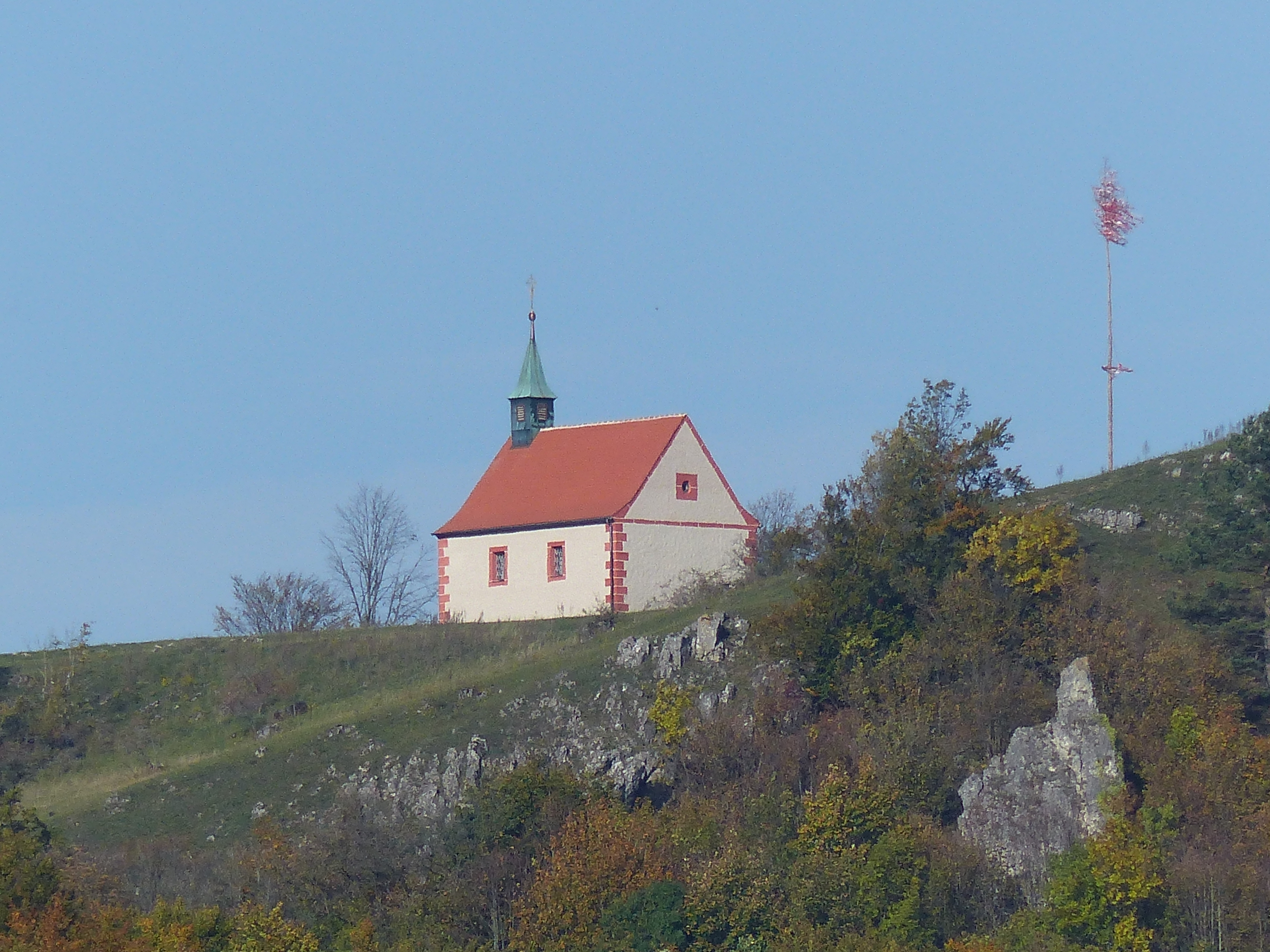 The Sankt Walburgis chapel, a pilgrimage chapel on the northern part of the summit plateau of the Ehrenbürg.